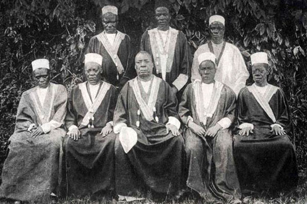 Buganda Kingdom officials. Regent Stanislas Mugwanya with other Buganda chiefs in the 1890s, during the reign of Kabaka Daudi Chwa II. Regents and chiefs were beneficiaries of land distribution following the 1900 Buganda Agreement that rewarded them for their collaboration with the British.